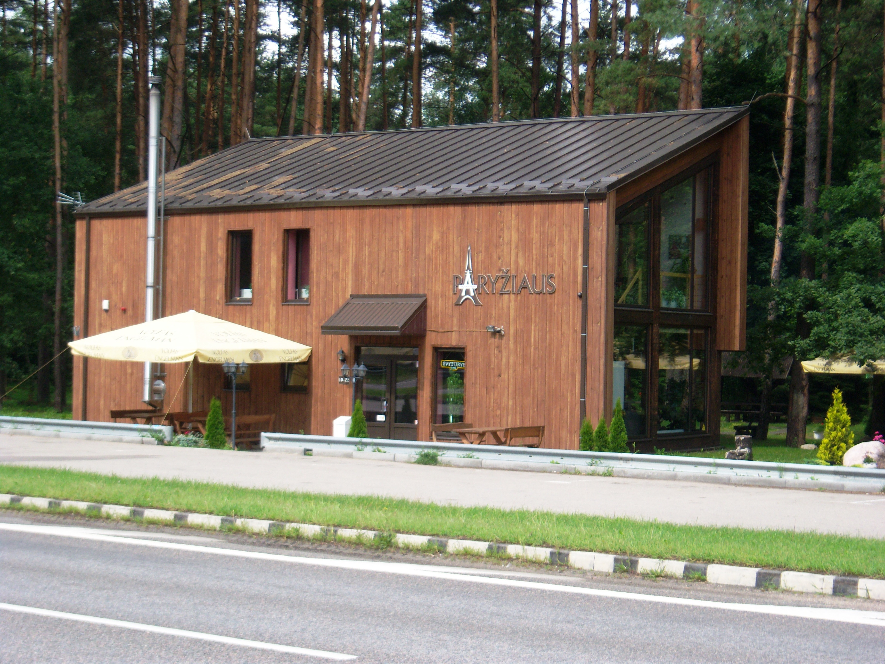 Paryžius, Jonava District, Lithuania